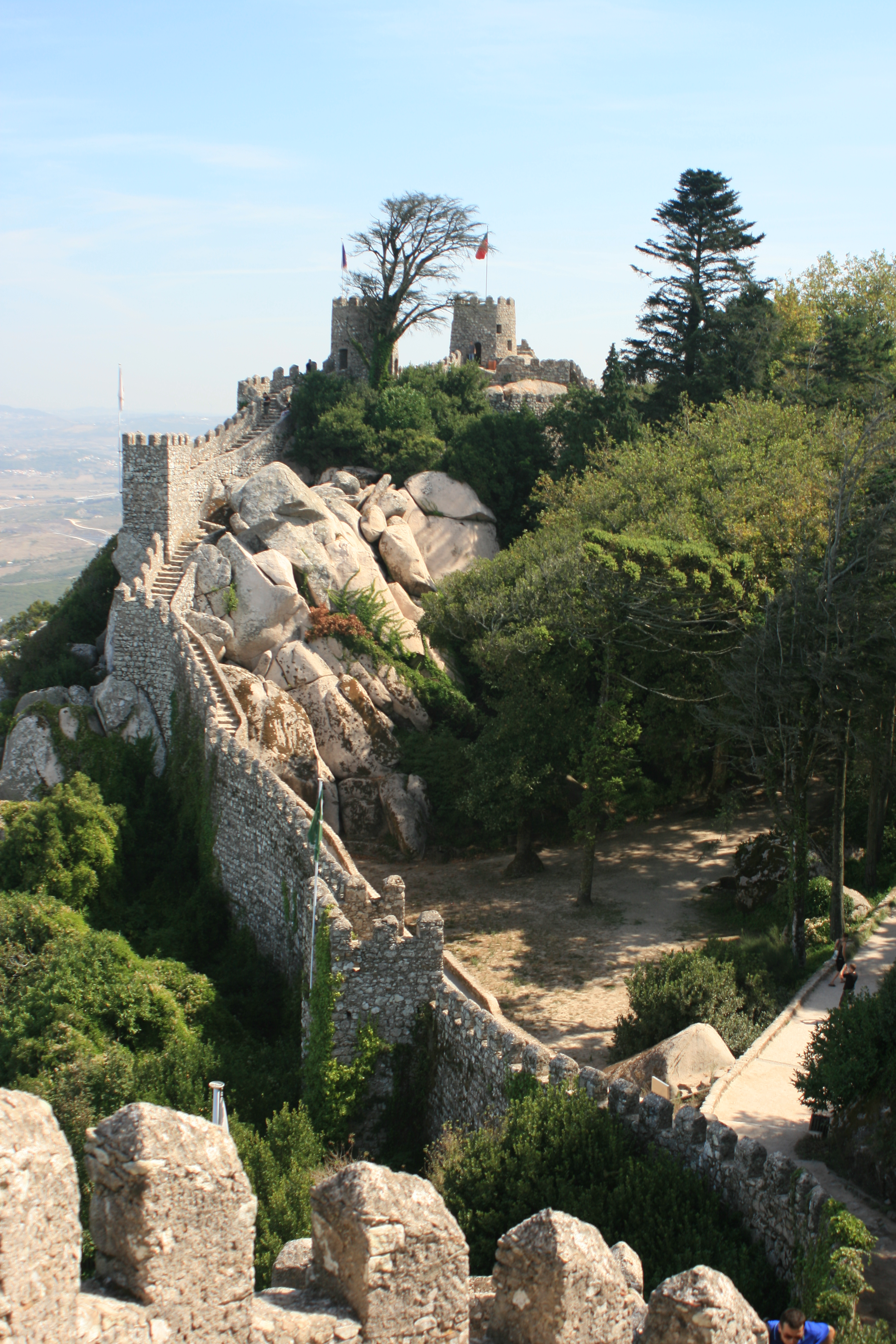 Moorish Castle